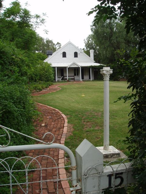 Alloway (cottage): Alloway facade from street